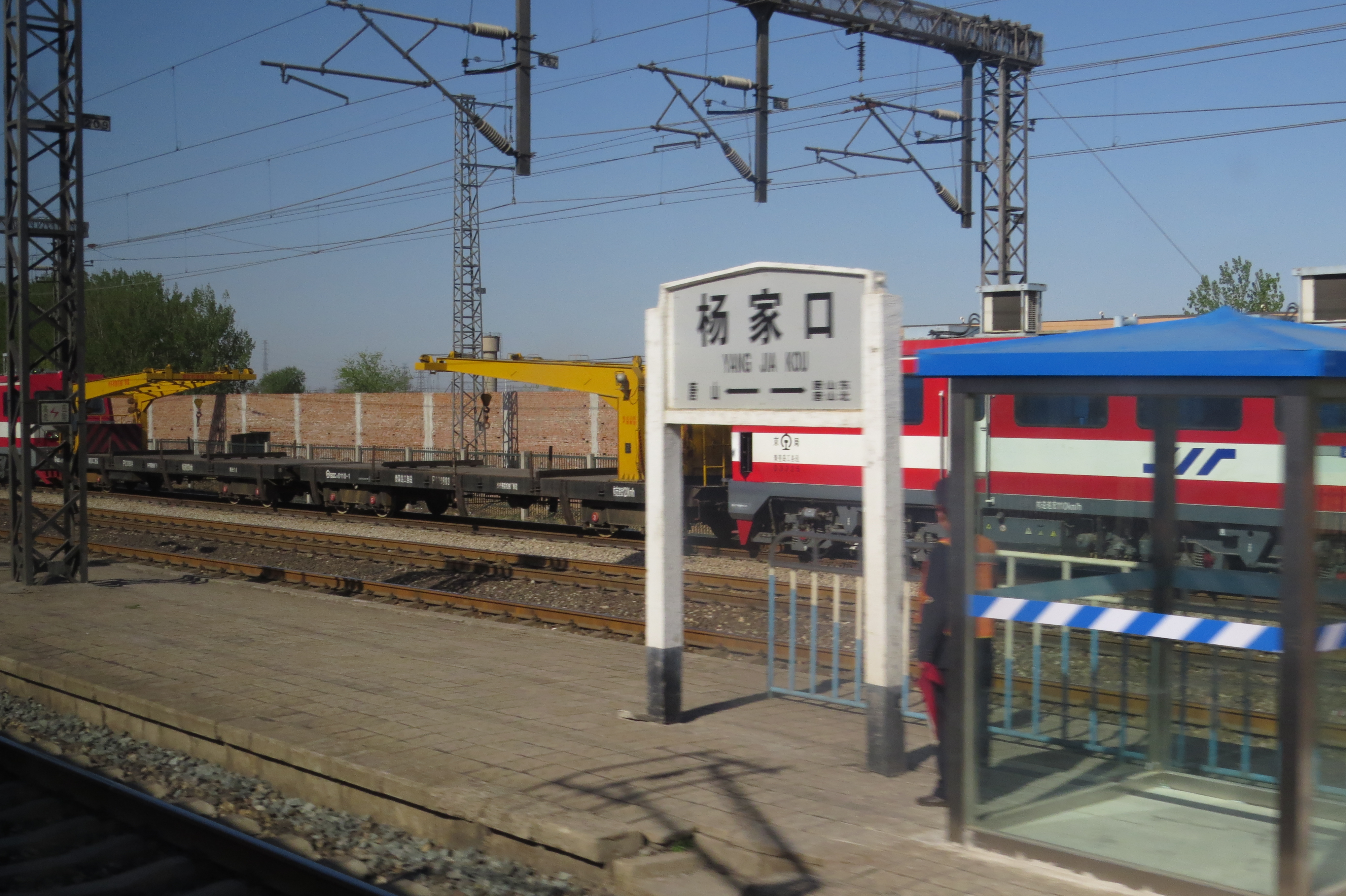 Taken from D6611. The next station? Tangshan.